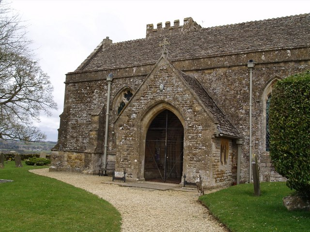 St. Peter's, Little Rissington